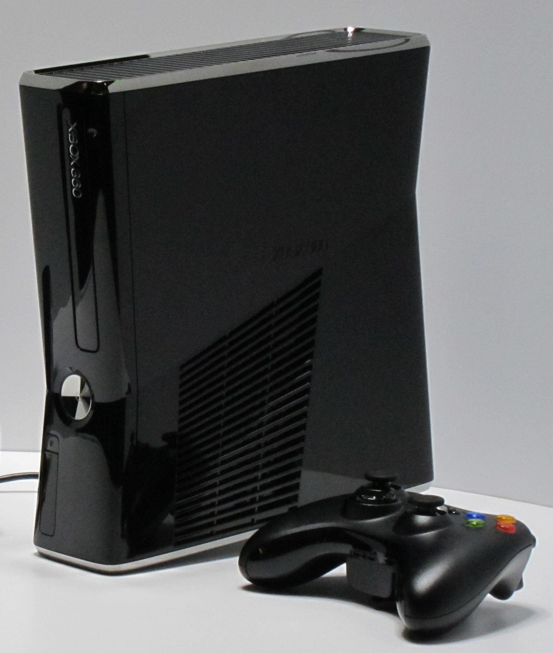 Xbox 360 250 GB as shown at the 2010 Electronic Entertainment Expo